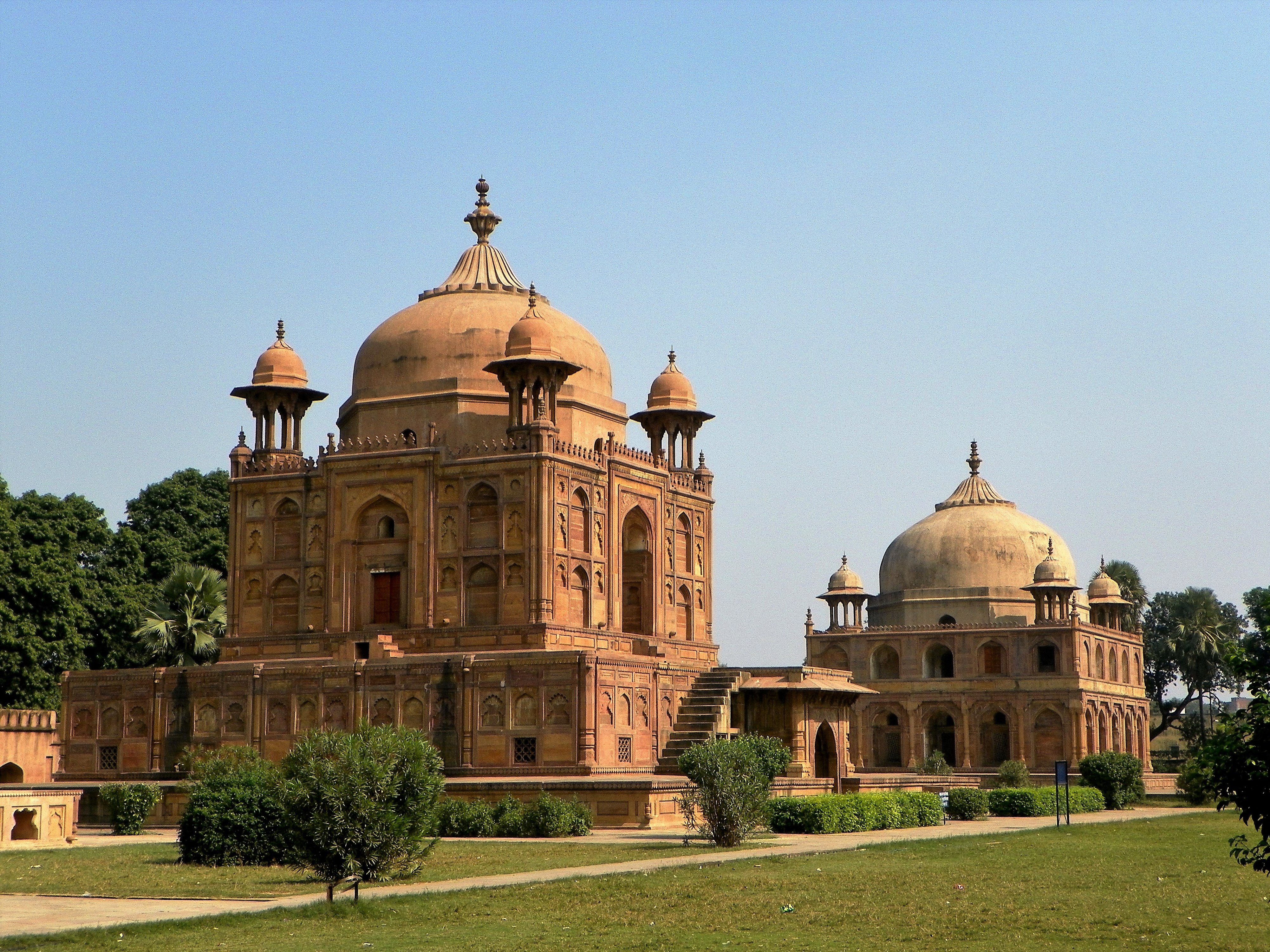 Khusru Bagh: Tomb of Sultan Khusru's Sister